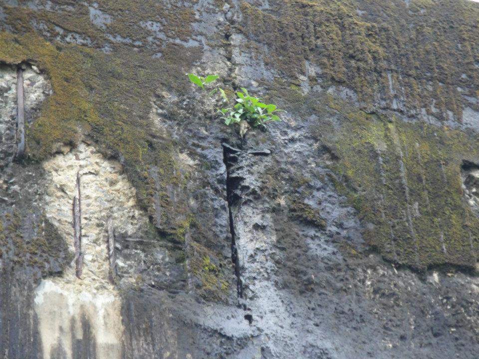 Damage Dam